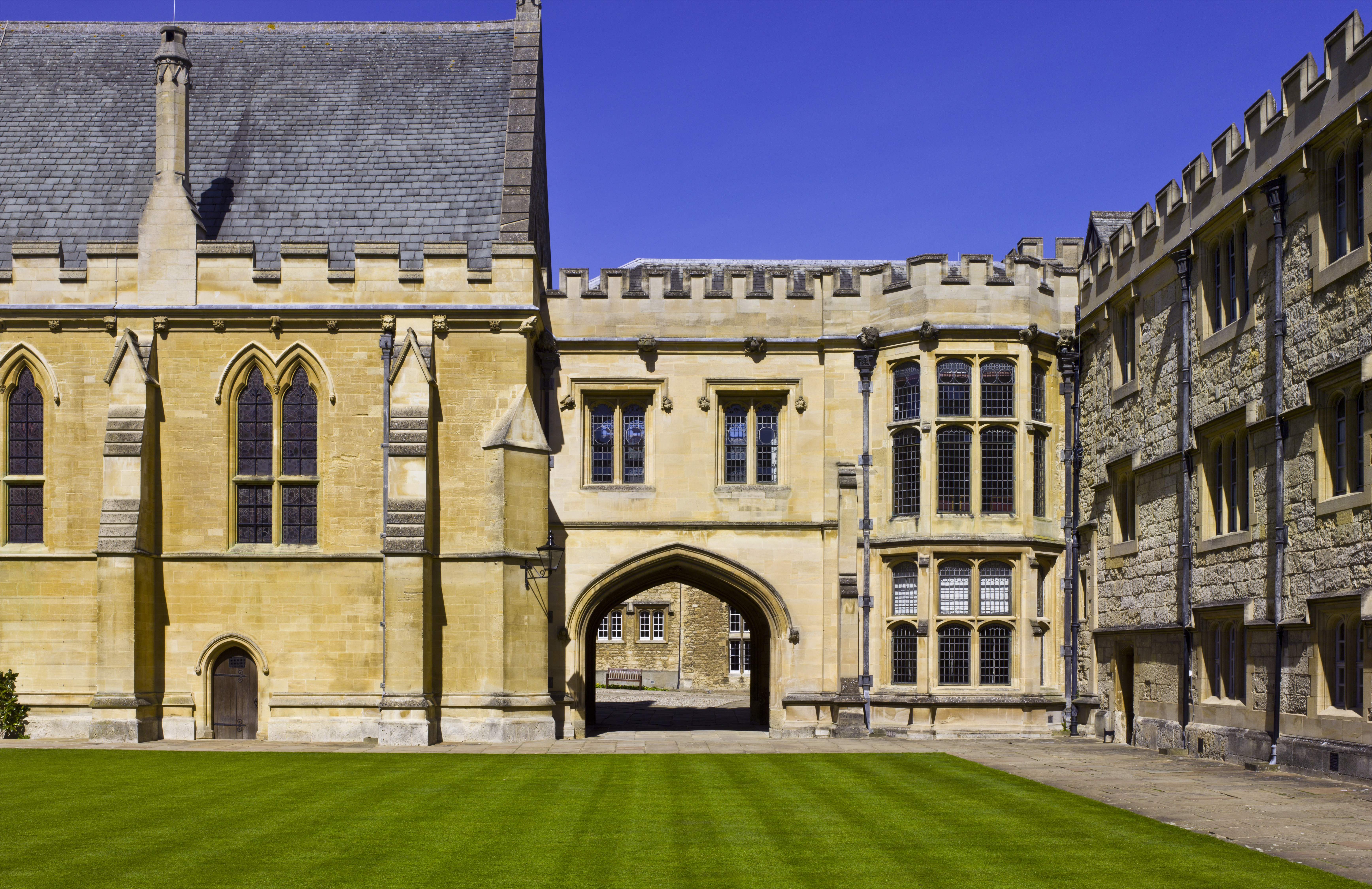 Merton College (Oxford University) founded in 1264. Fellow's Quad, looking towards Fitzjames Arch.